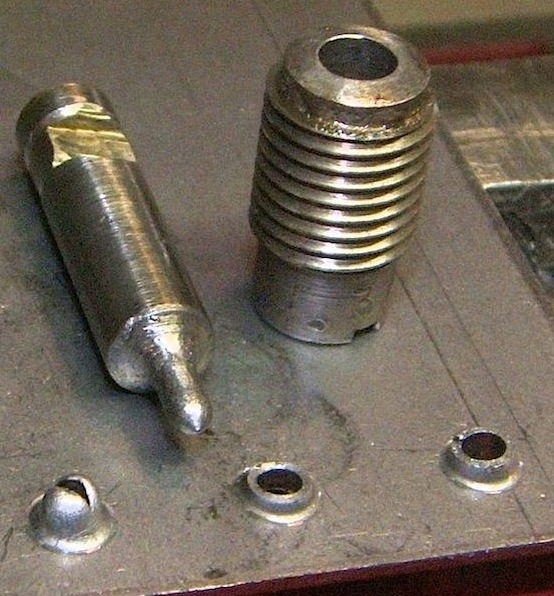 Extruded holes in sheet metal with the punch and die used to create them. The left hole was punched without using a pilot hole. A 1/16" (1.58mm) pilot hole was used in the center and a number 58 (0.042" or 1.06mm) pilot hole was used on the right. Material: 16-gauge (0.062" 1.6mm) hot rolled mild steel. Die (right top): Roper-Whitney type O, 7/32" (nominal 5.55mm). Punch (left top): high-speed steel 0.113" (2.87mm) diameter with a 90° point.